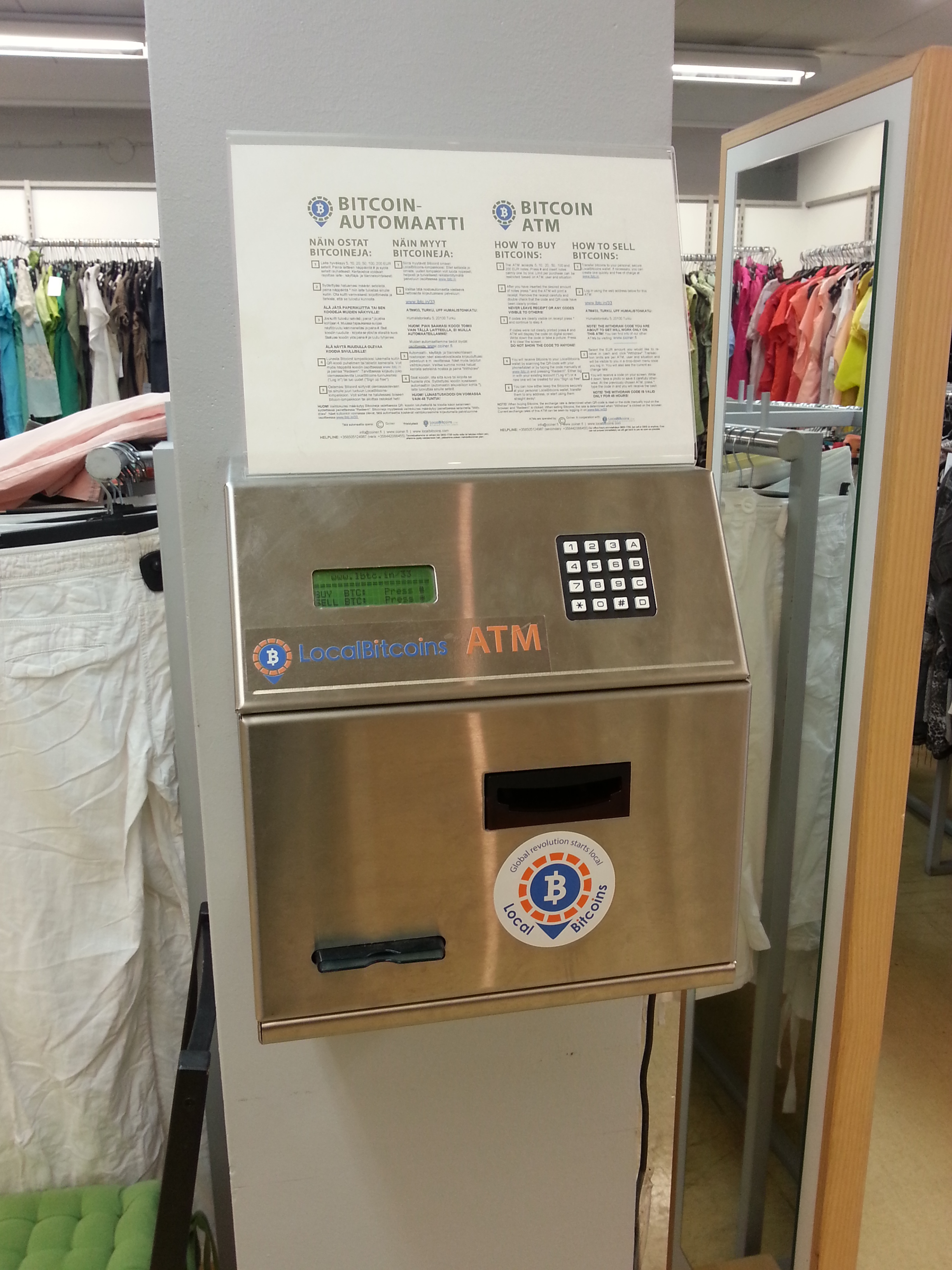 Bitcoin ATM in a vintage clothes shop, Turku, Finland